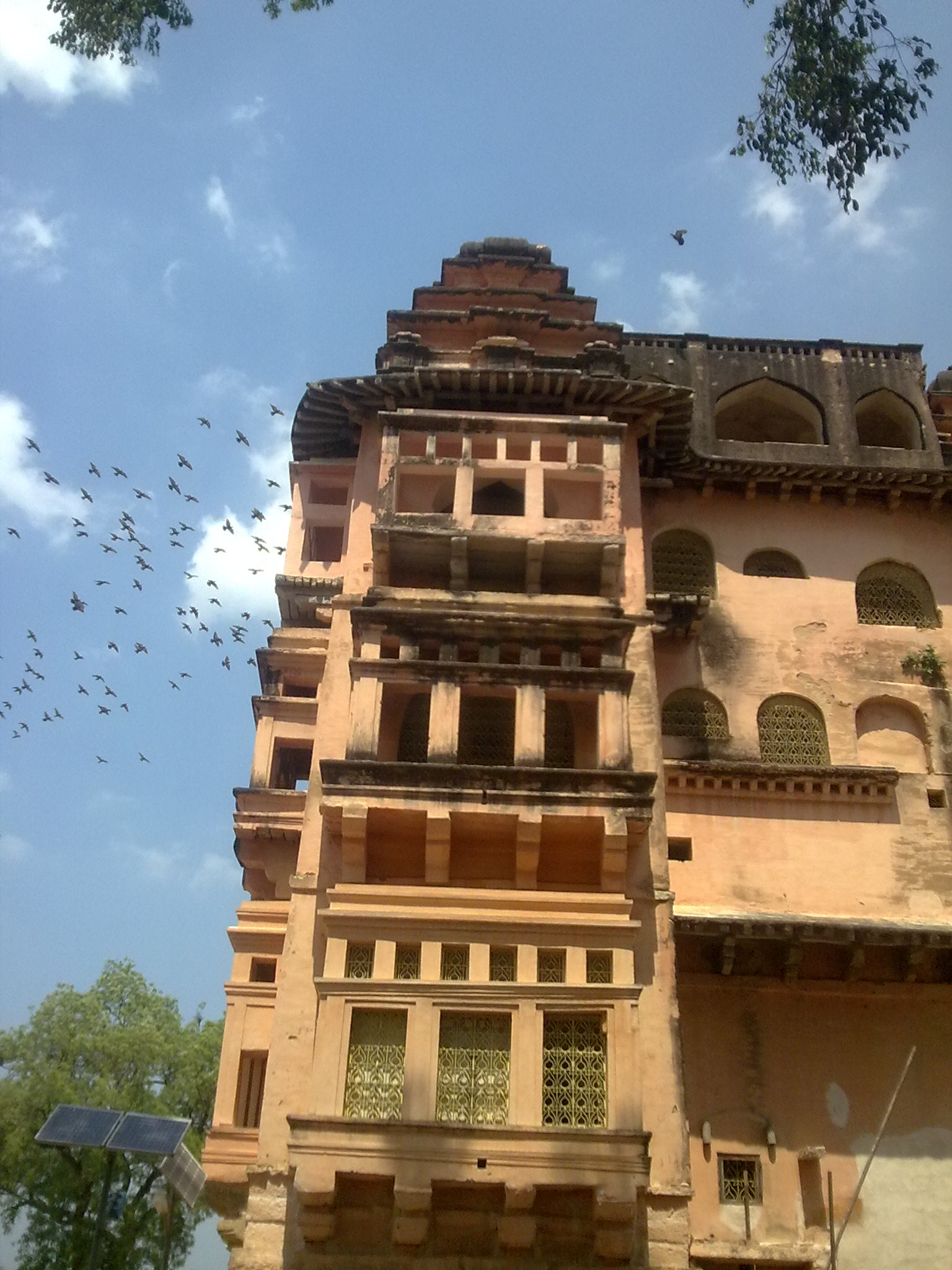 Upper Fort